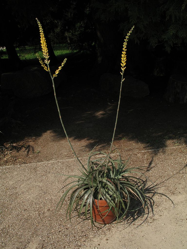 Dyckia velascana in cultivation at the Botanical Garden of Heidelberg, Germany.